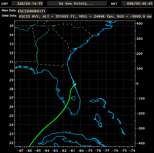 Deorbit and landing path for Space Shuttle mission STS-129.